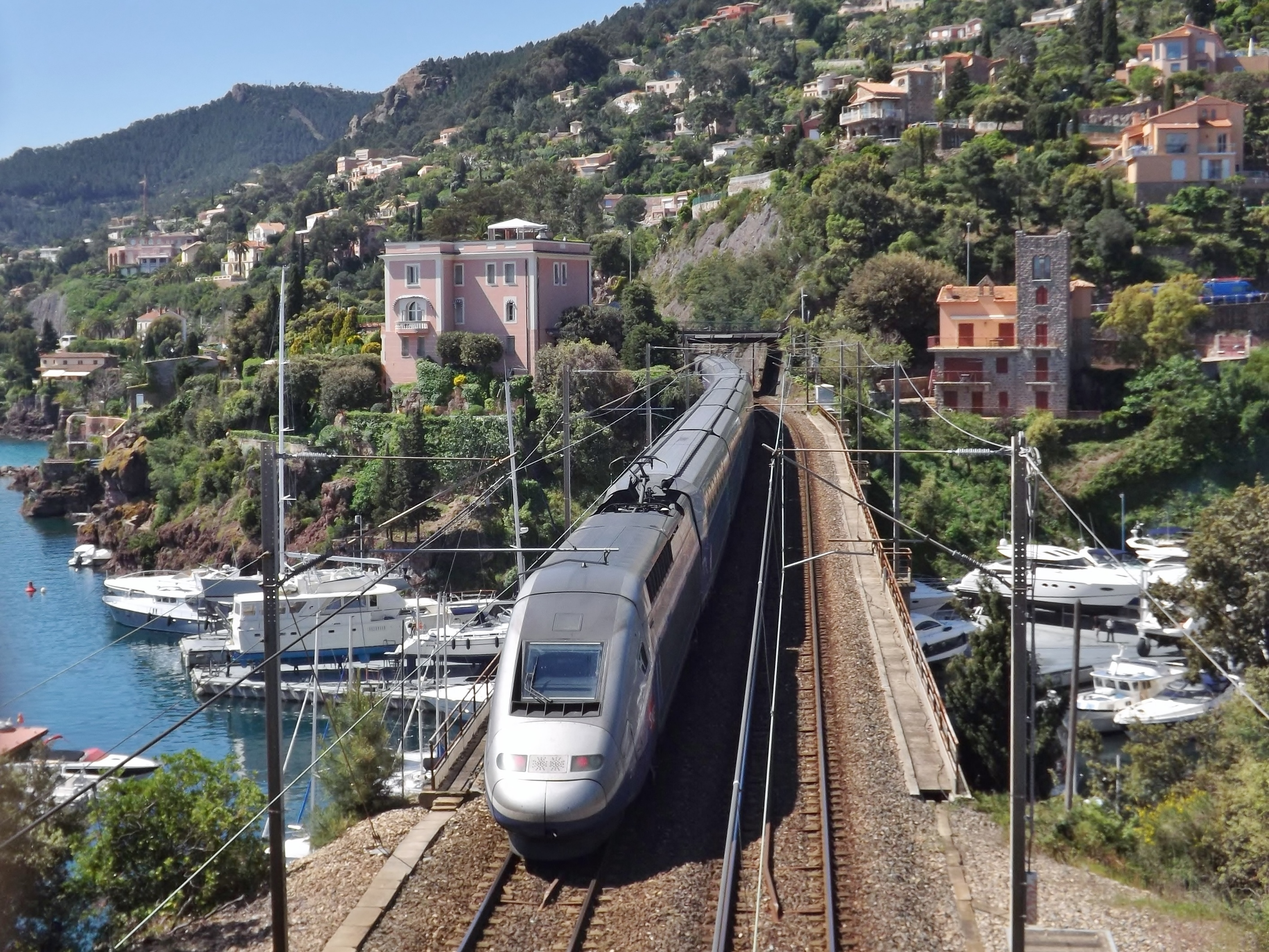 Sight of a French TGV Duplex coming from Nice and Cannes and passing over the viaduc de la Rague bridge, between Mandelieu-la-Napoule and Théoule-sur-Mer, in Alpes-Maritimes.